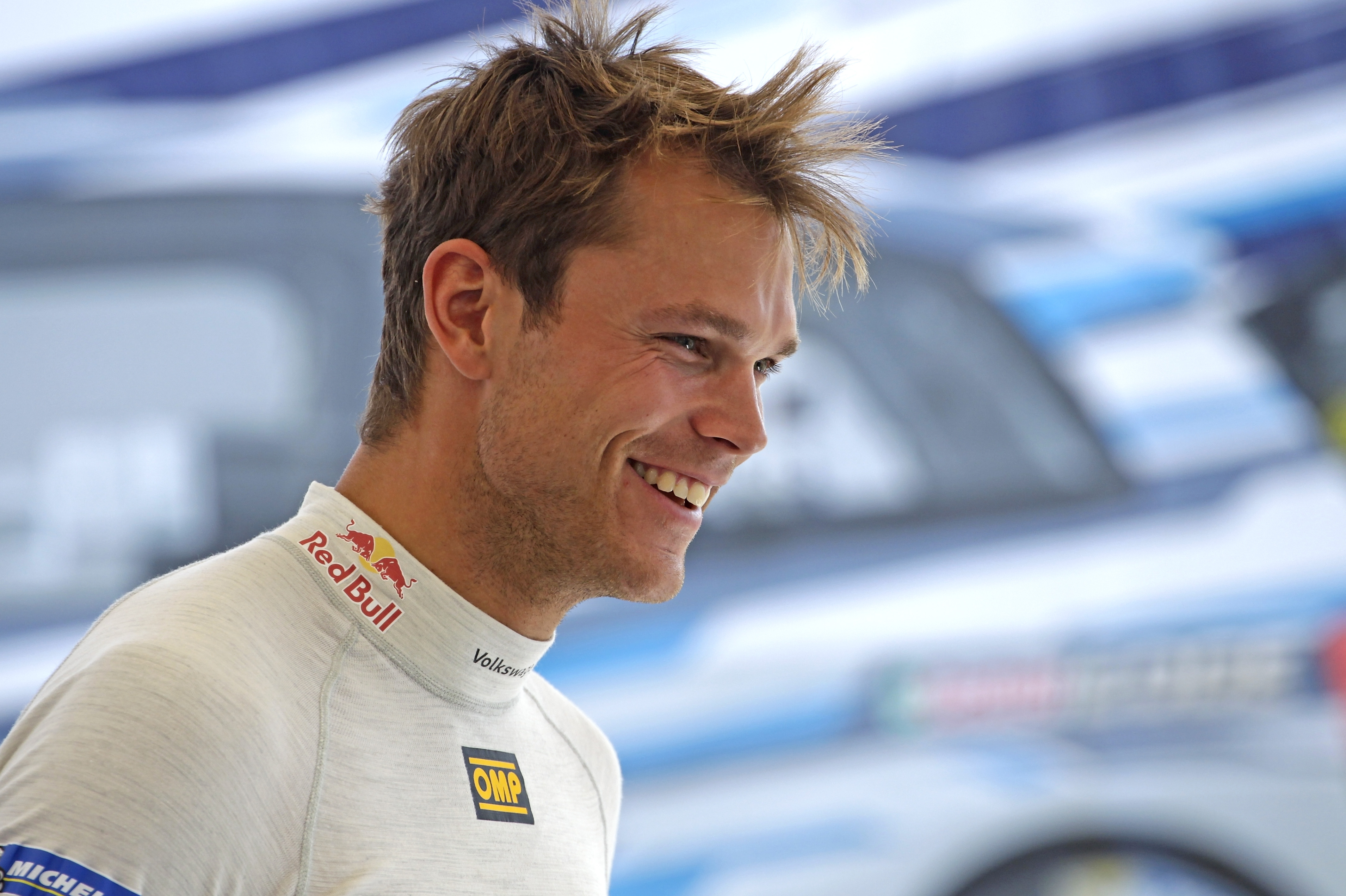 Andreas Mikkelsen of Volkswagen Motorsport at the 2015 Rally Australia.